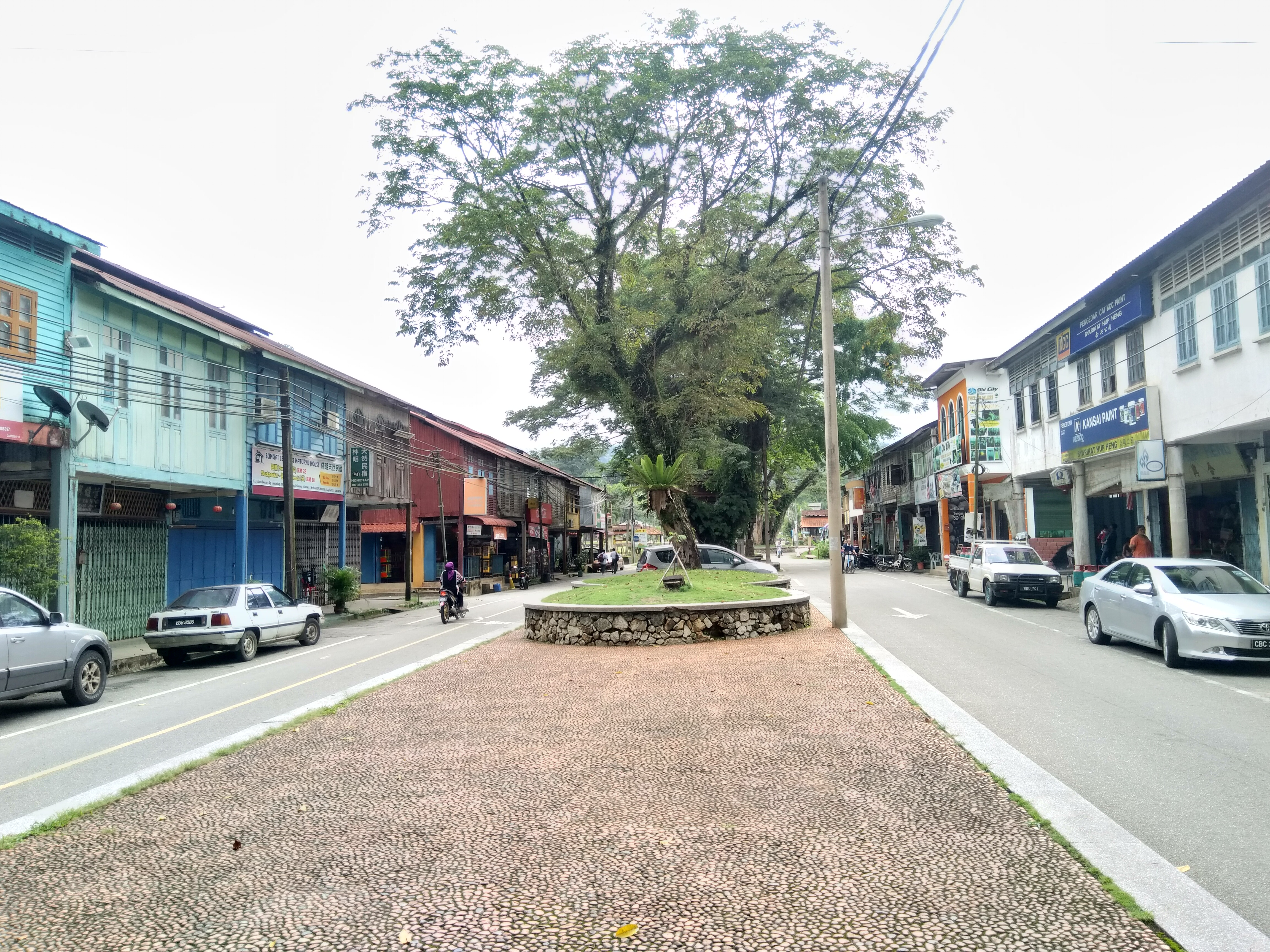 The street view of the town of Sungai Lembing.